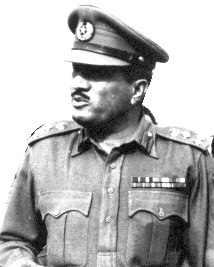 Portrait of Brigadier Abbas Baig of Pakistan Army